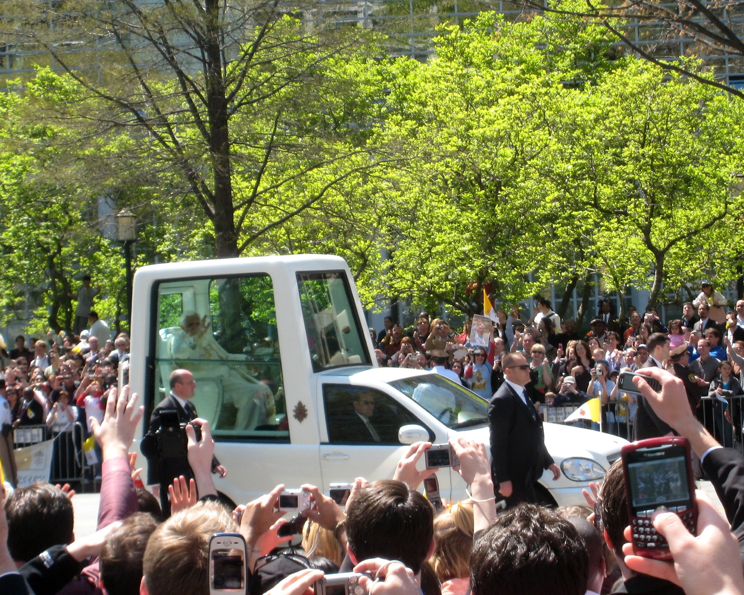 Benedictus XVI in Washington, D.C. on April 16, 2008.